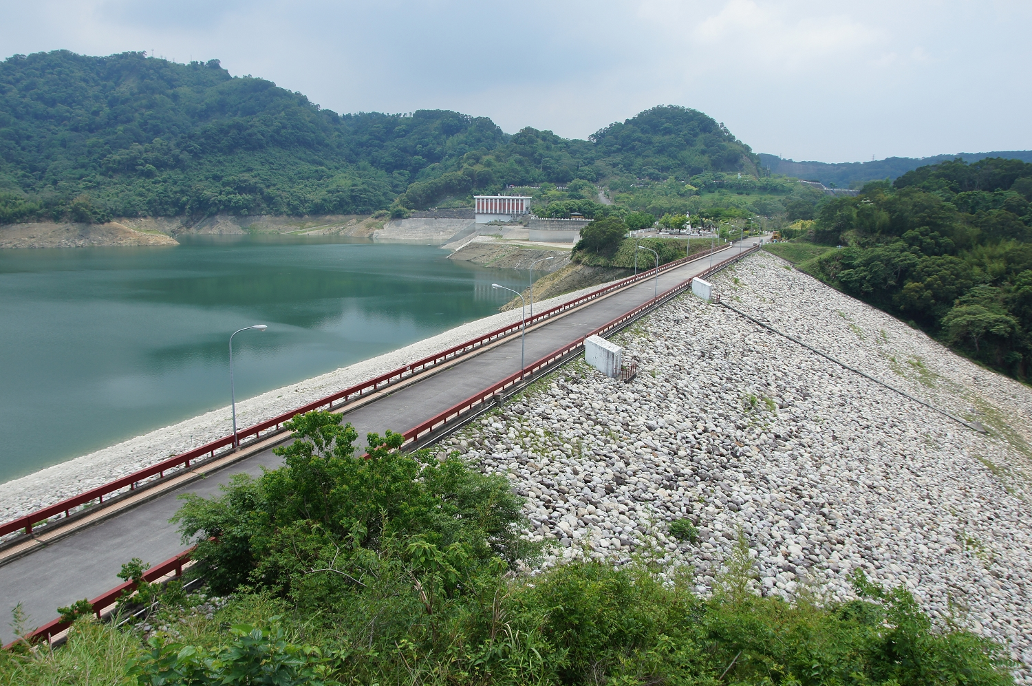 Li-Yu-Tan Reservoir Dam